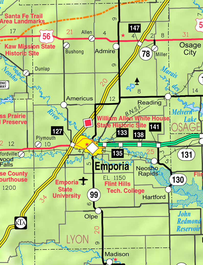 This map of Lyon County, Kansas, USA, is copied at a resolution of 300 pixels/inch from the original PDF file.